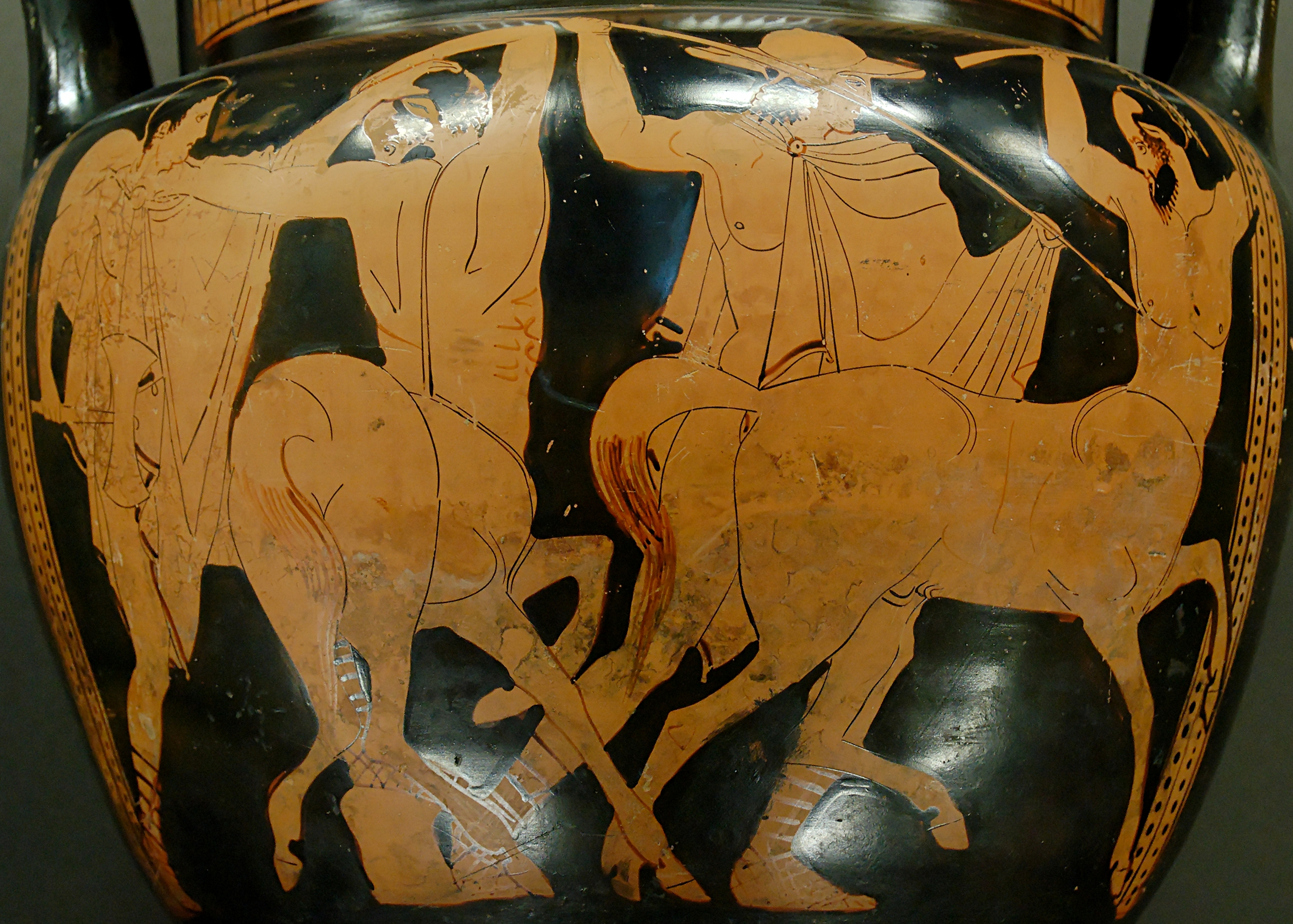 Centauromachy. Side A from an Attic red-figure column-krater, ca. 450–440 BC. From Fasano, Italy.